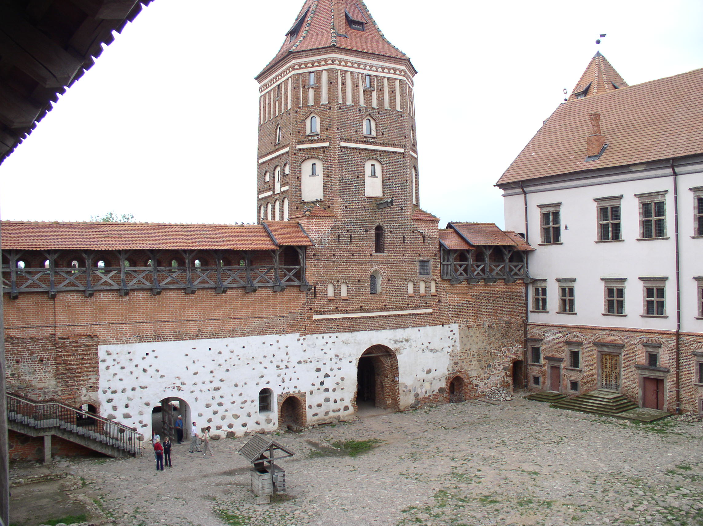 Castle, Mir, Belarus.